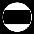 「大中黒」紋 / Japanese Family Crest “Oonakaguro”